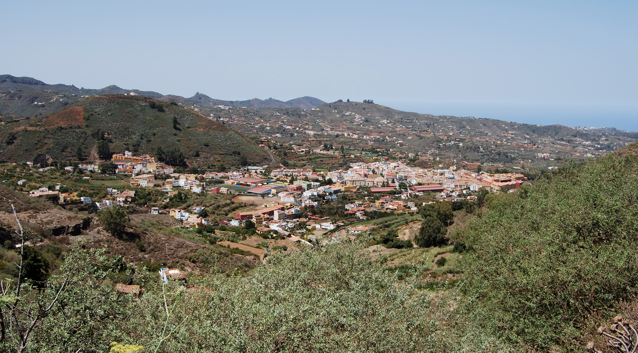 The municipality Vega de San Mateo, Gran Canaria.